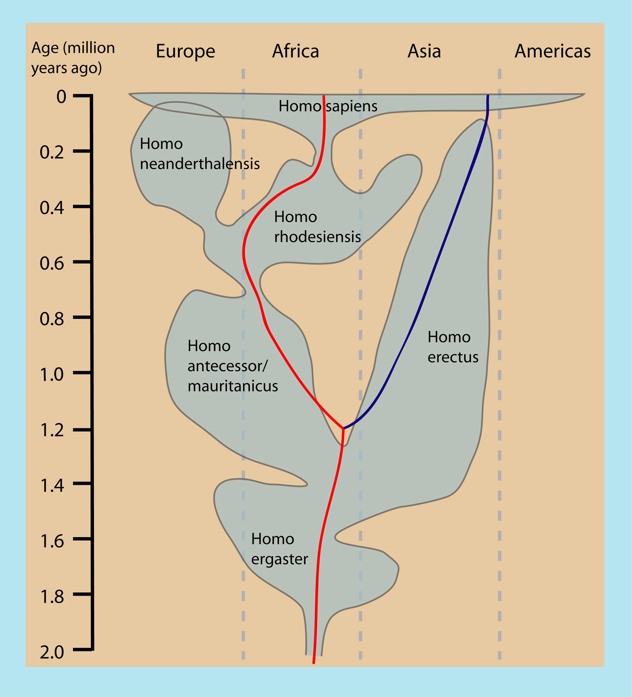 Temporal and Geographical Distribution of Hominid Populations Redrawn from Stringer (2003) "This figure depicts one view of human evolutionary history based on fossil data. Other interpretations differ primarily in the taxonomy and geographical distribution of hominid species. The temporal distribution of the two divergent lineages of P. humanus is superimposed on the hominid tree to show host evolutionary events that were contemporaneous with the origin of P. humanus. Whereas the NW lineage is depicted on H. erectus in this figure, several alternative hypotheses are consistent with our data when other evolutionary histories of hominids are considered (unpublished data). The WW clade is shown in red and the NW clade in blue (see text for descriptions of clades)."